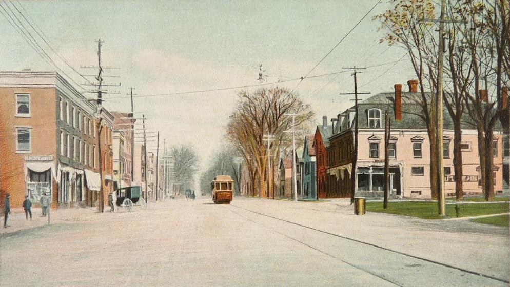 Main Street looking north, St. Albans, Vermont; from a 1909 postcard published by S. Langsdorf & Co., New York.